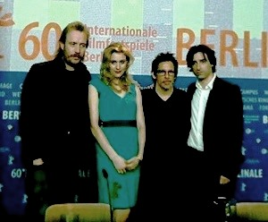 Members of the cast and crew of "Greenberg" at Berlinale 2010.